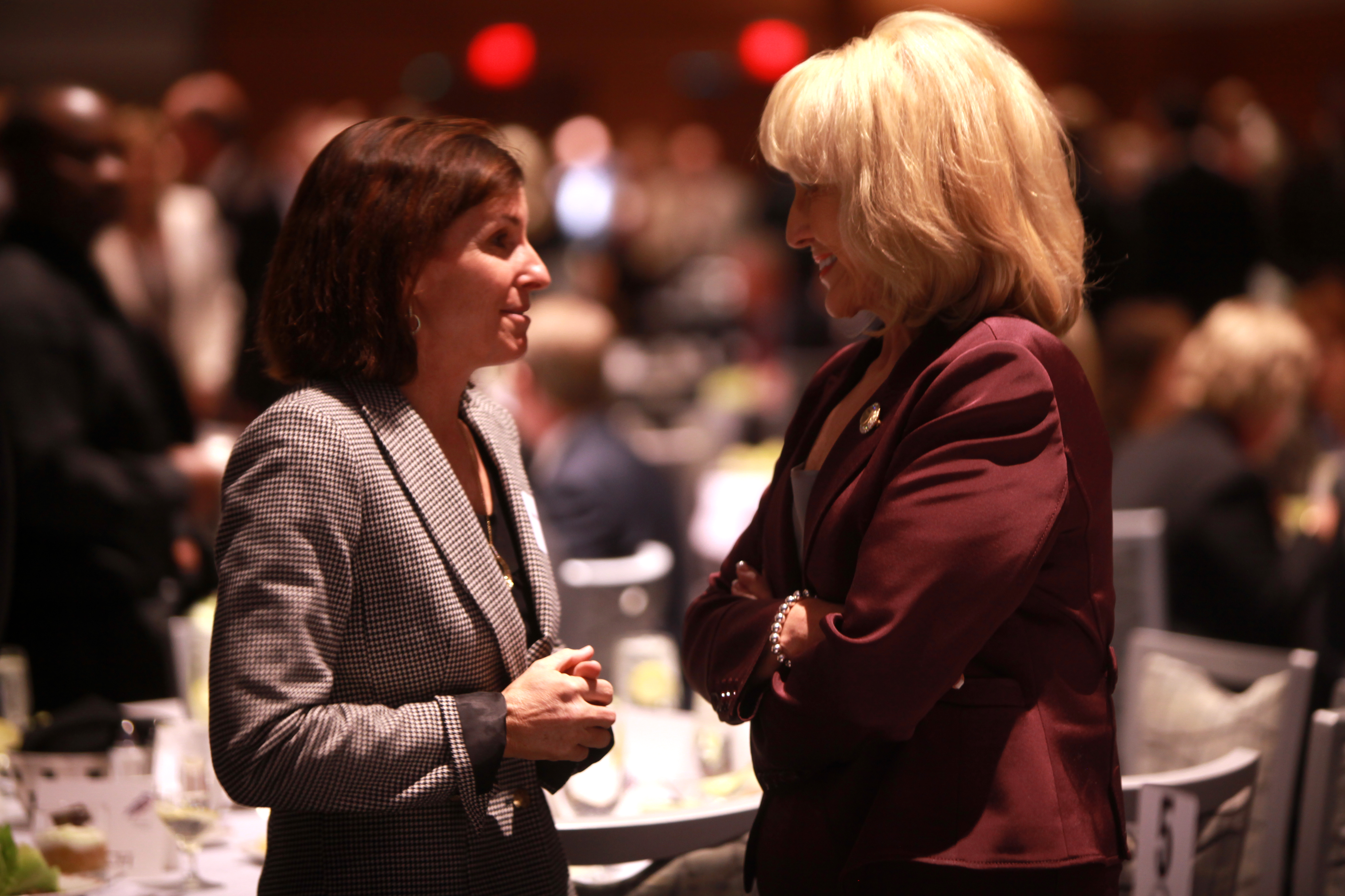 Governor Jan Brewer speaking to Congressional candidate Martha McSally at the Arizona Chamber of Commerce & Industry's 2014 Legislative Forecast Luncheon at the Phoenix Convention Center in Phoenix, Arizona.